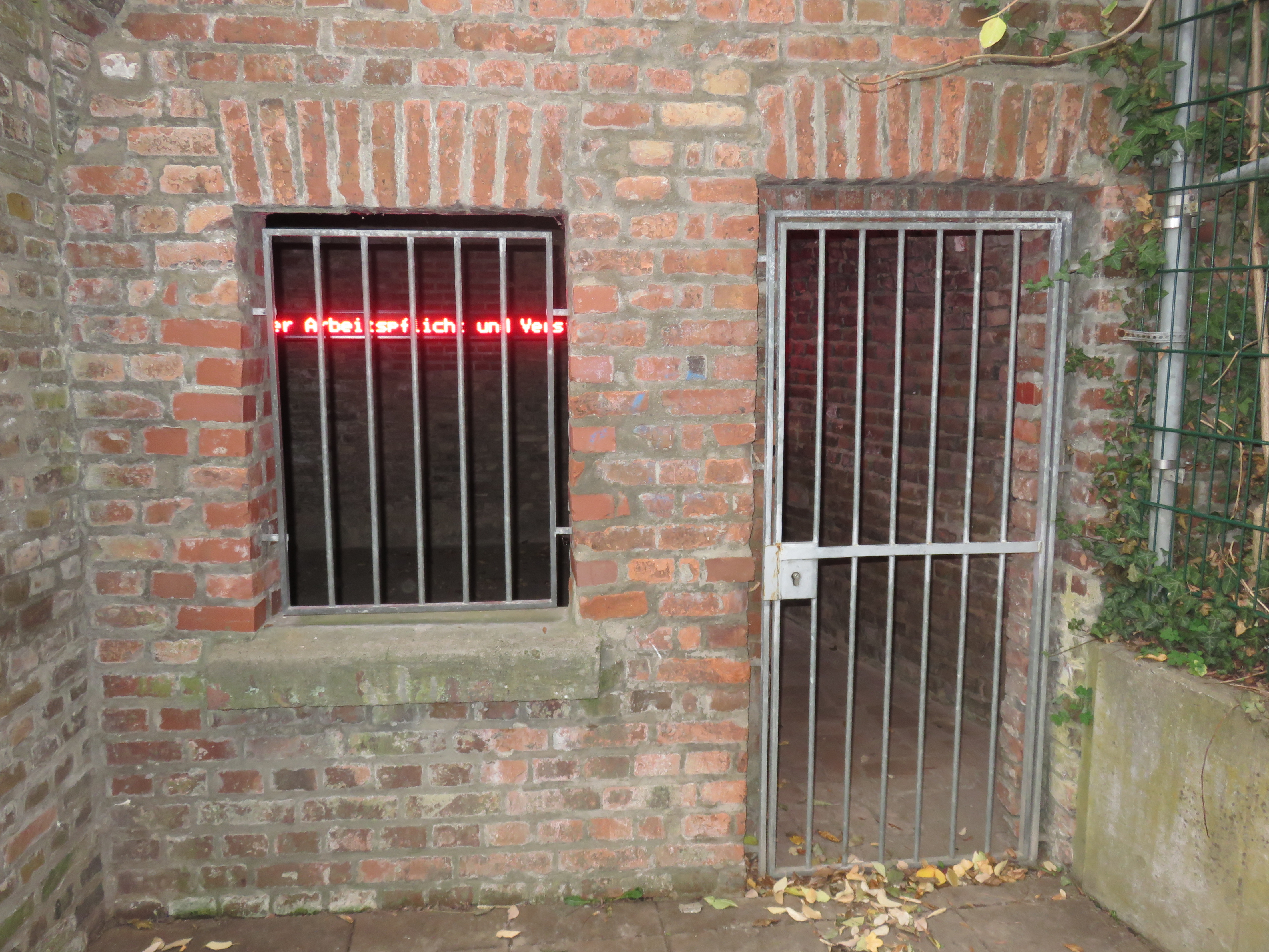 Frankfurt-Heddernheim concentration camp "Arbeitserziehungslager Heddernheim", memorial place. The function of the adit entrance during Nazi time is unclear. It might have been a shelter tunnel.